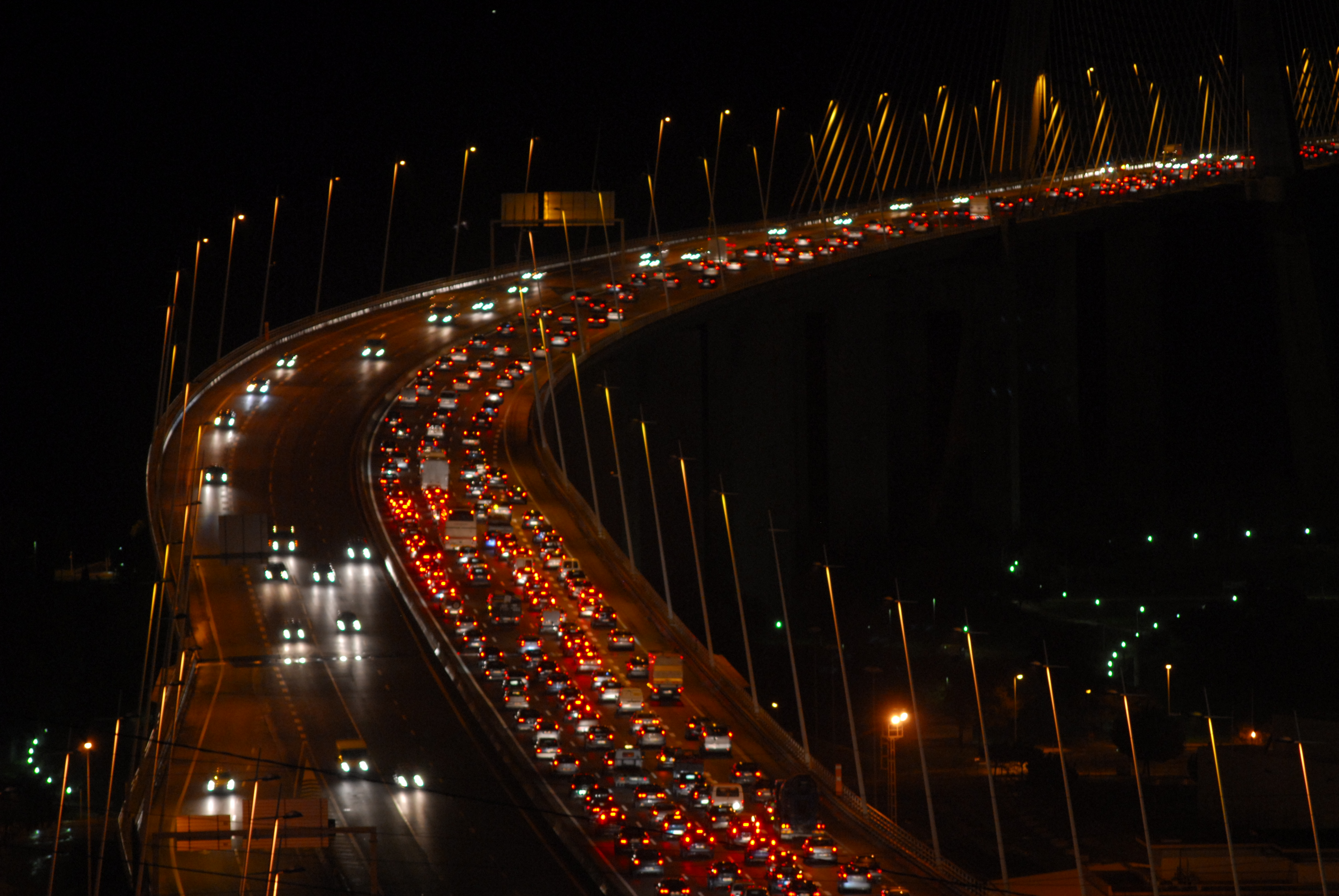 Vasco da Gama bridge, Lisbon, Portugal